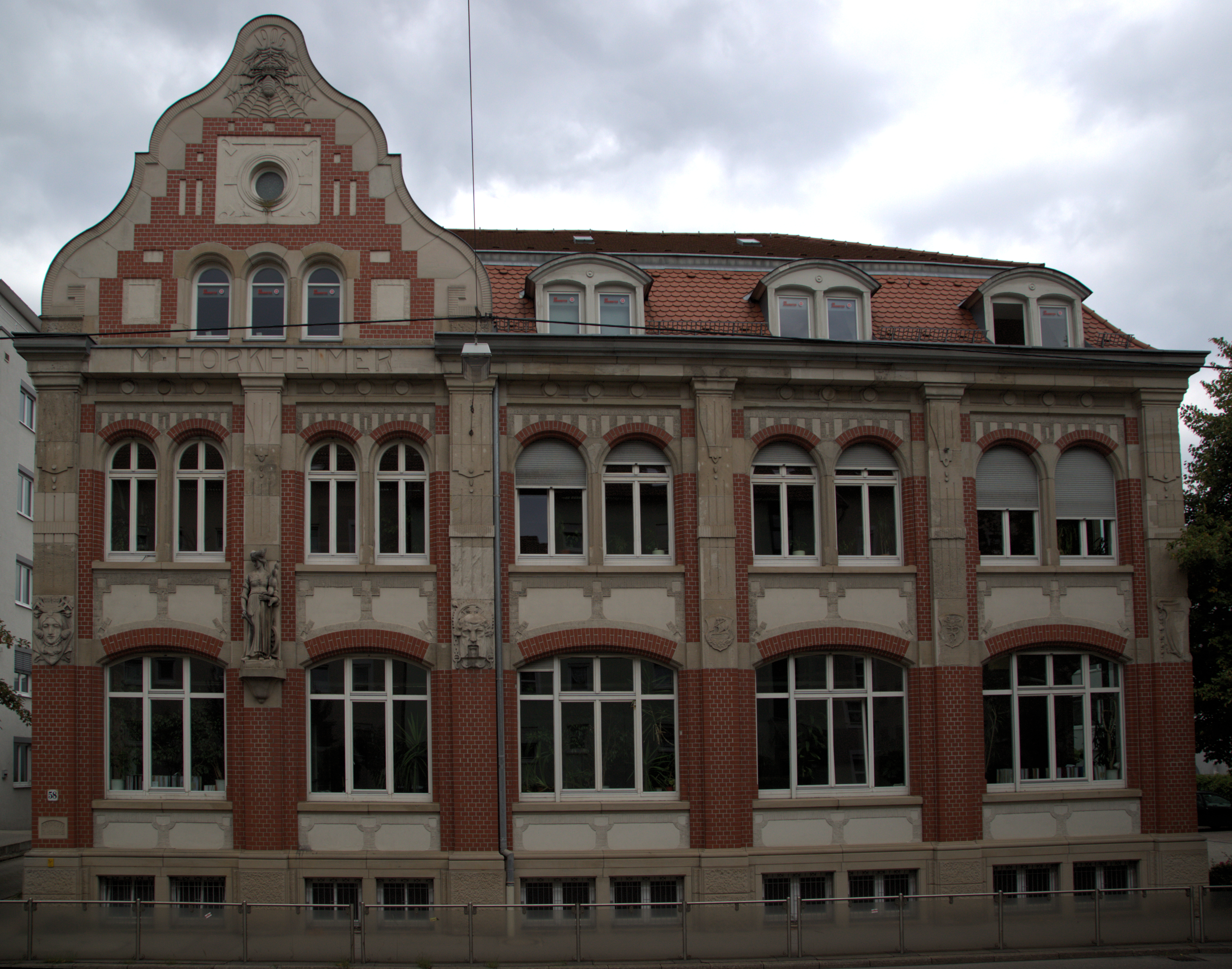 Front of the former spinning works "Horkheimer" in Stuttgart Zuffenhausen